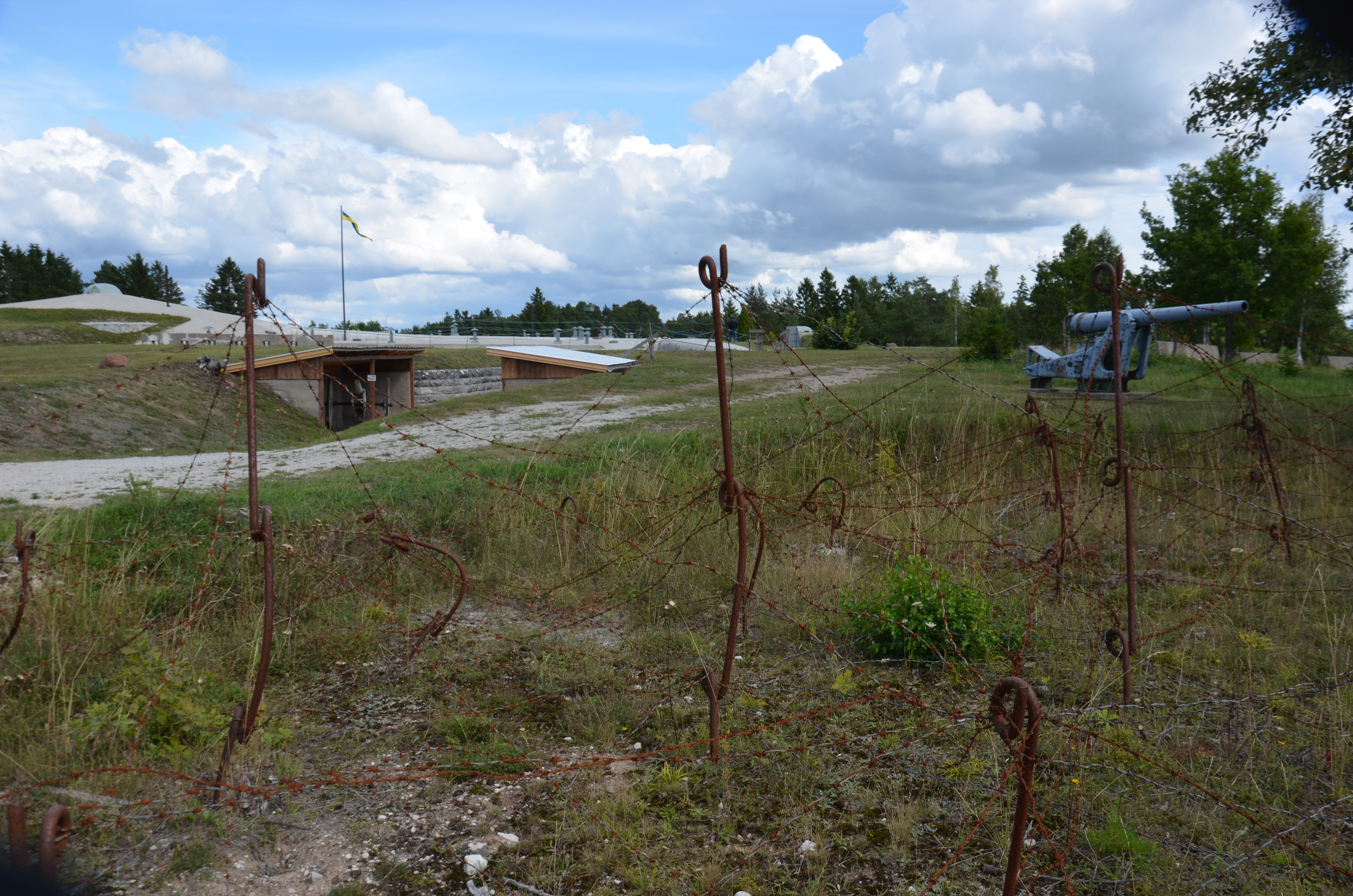 Tingstäde fästning 02